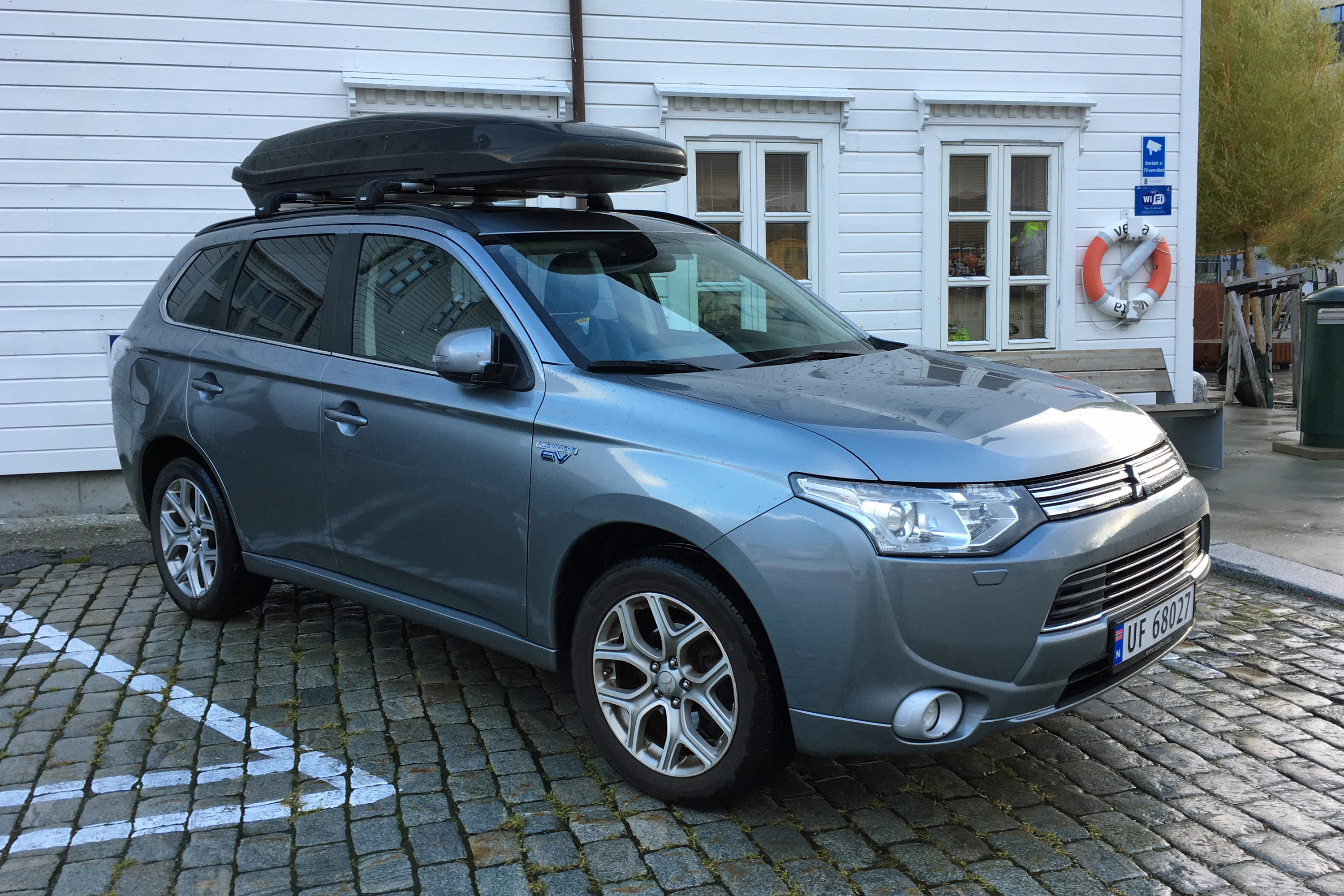 Mitsubishi Outlander P-HEV (plug-in hybrid) in Alesund, Norway.